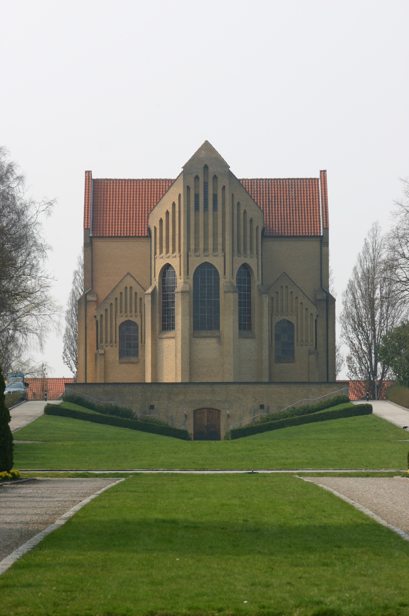 Christianskirken, Sønderborg, Denmark